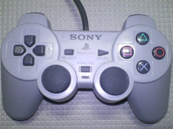 DualShock, Analog controller for PlayStation